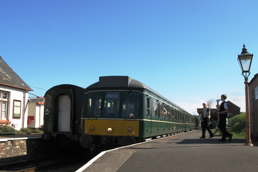 A diesel multiple unit, led by power car 51859, calls at Blue Anchor station on the West Somerset Railway, England, with a train to Minehead.